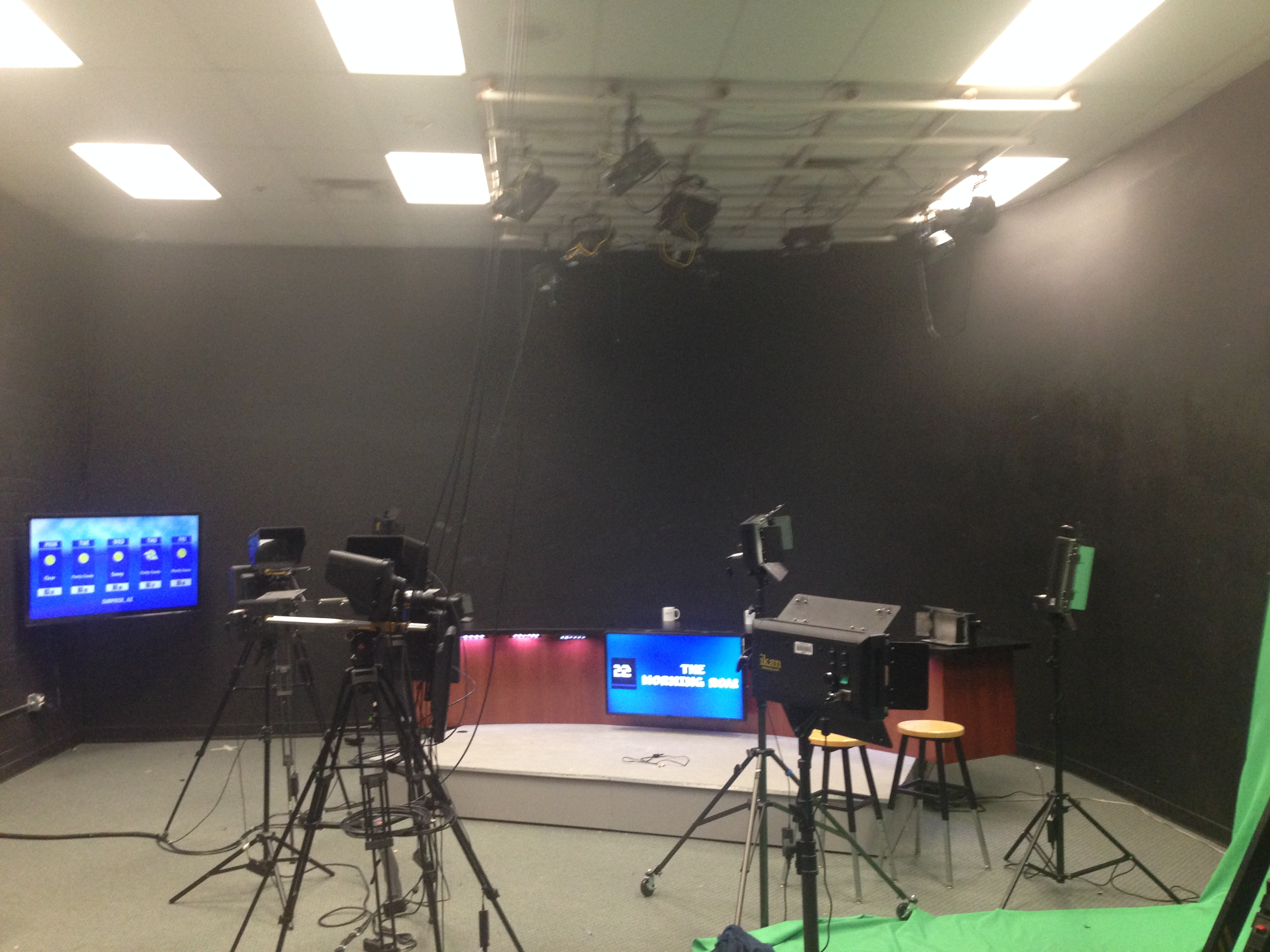 Inside the studio where WCHS announcements are made.